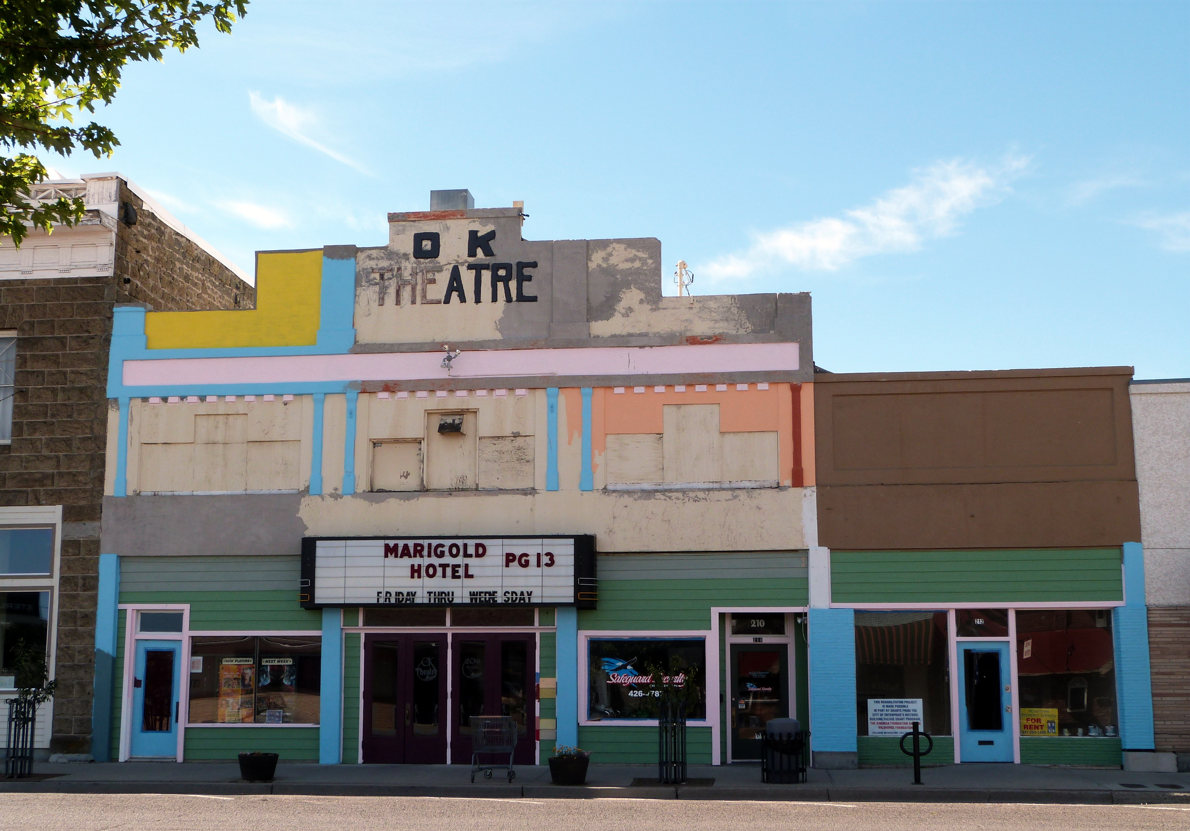 The historic O.K. Theatre, located at 208 West Main Street in Enterprise, Oregon, United States, is listed on the US National Register of Historic Places.